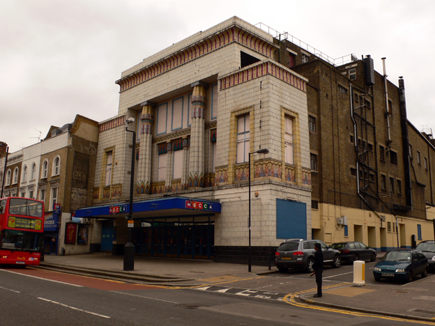 Mecca Bingo Hall (former Carlton Cinema), Essex Road, Islington, London